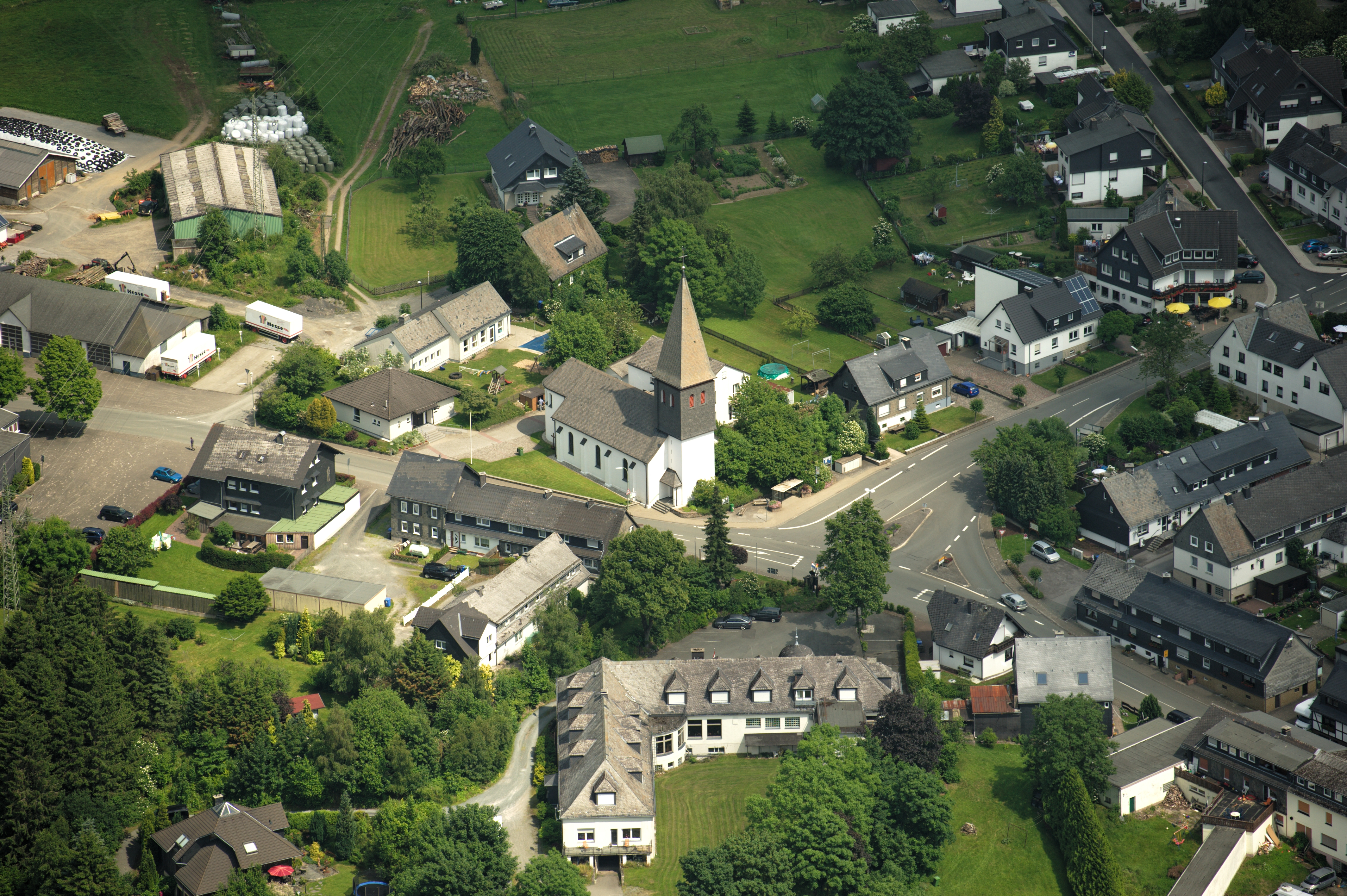 Fotoflug Sauerland-Ost, Bestwig-Andreasberg, St.-Barbara-Kirche The making of this document was supported by the Community-Budget of Wikimedia Germany.